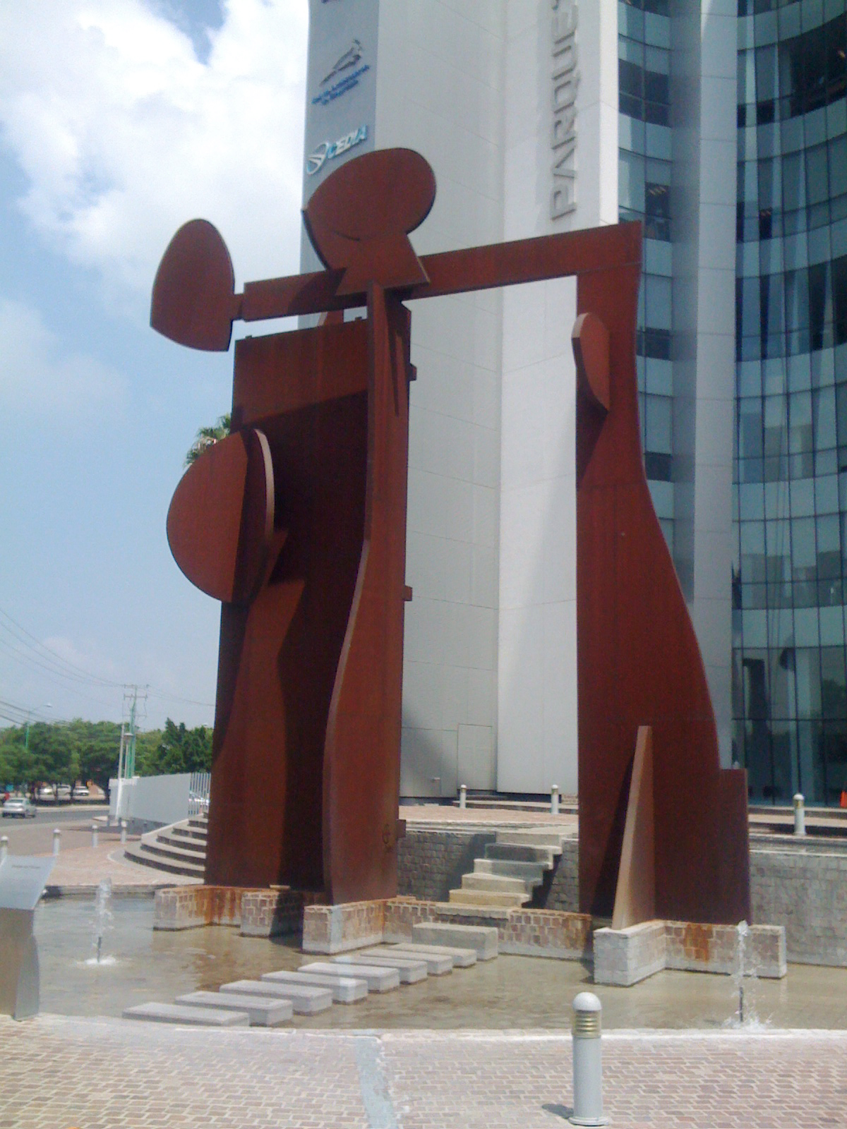 Sense of Times, artist Gilberto Aceves Navarro's sculpture located on ITESM college, campus Queretaro.